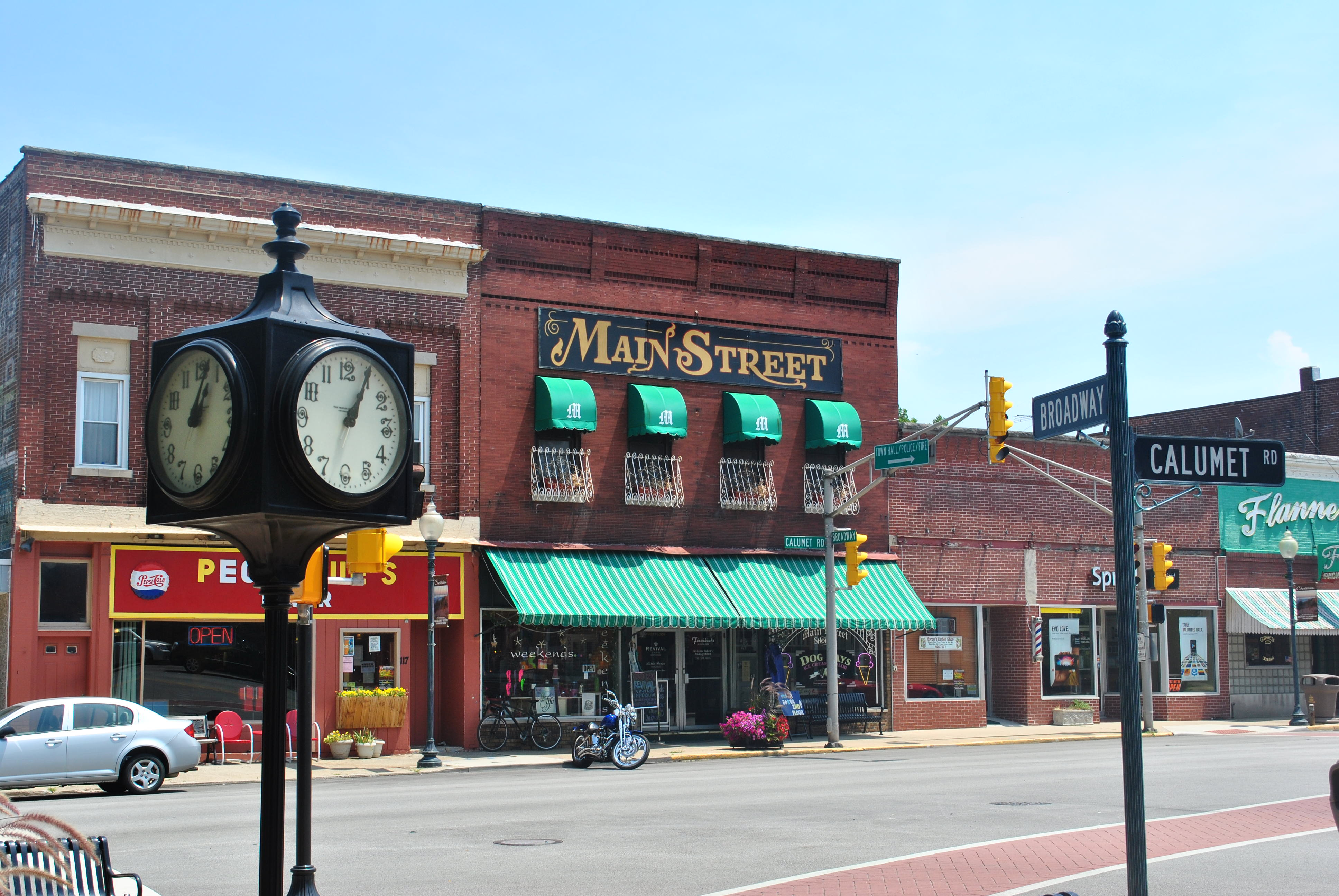 Main Street Building (119 S. Calumet St. at Broadway), downtown Chesterton, Indiana